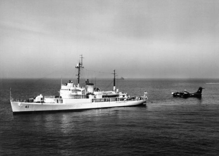 The U.S. Navy Barnegat-class seaplane tender USS Greenwich Bay (AVP-41) refueling a Martin P5M-2 Marlin seaplane of Patrol Squadron VP-44 Golden Pelicans on 24 May 1955. AVP-41 is wearing the white paint of a Middle East Force flagship.